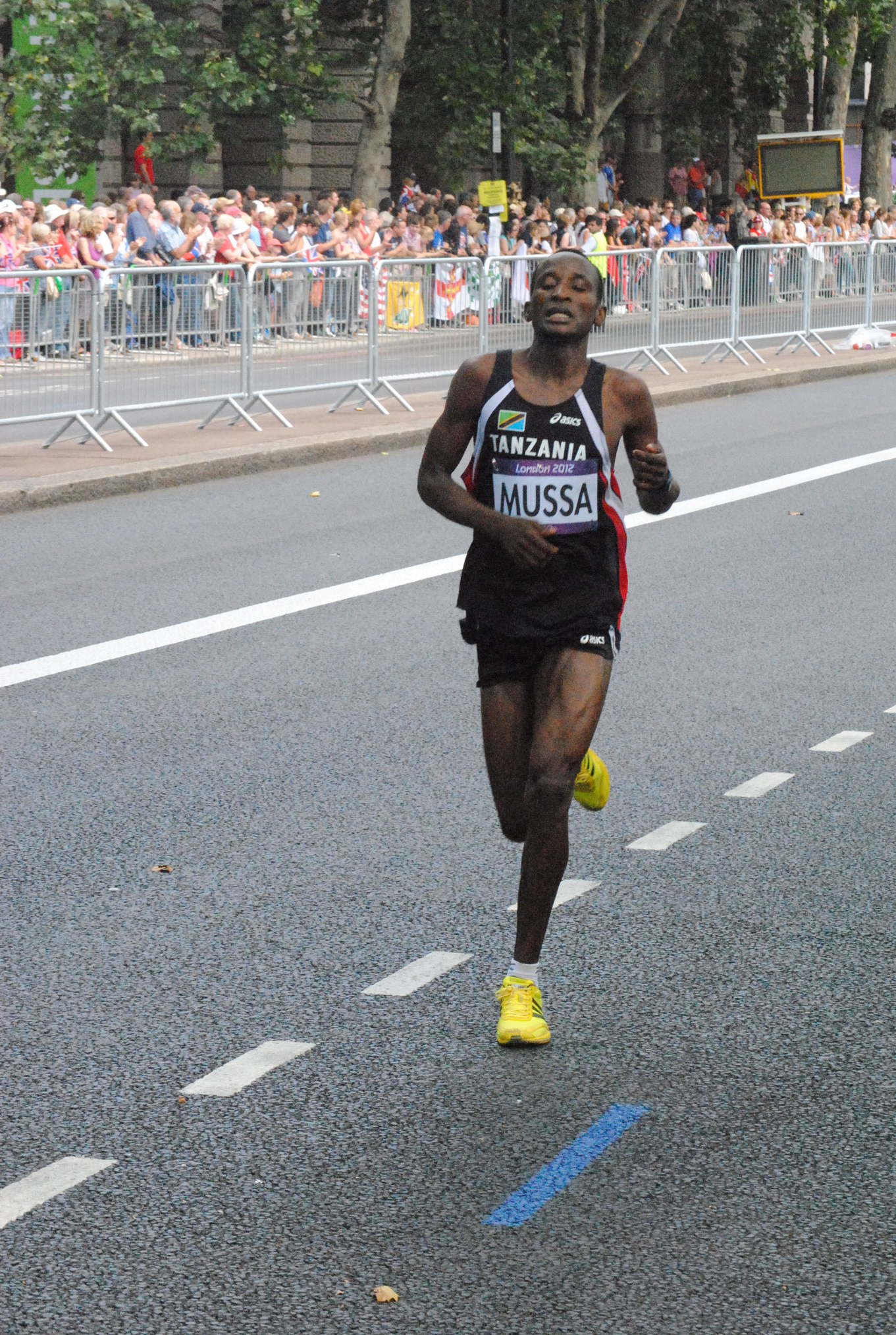 The men's marathon of the 2012 Summer Olympics in London, UK took place on an Olympic marathon street course on Sunday 12th August 2012 at 11:00. This was the final day of the 30th Olympic Games. The London 2012 marathon course is the standard Olympic distance of 26 miles 385 yards and consists of one short lap of approx 2.2 miles followed by three longer laps of 8 miles. The course began on The Mall and travelled past several of the most famous London landmarks. The start/finish line was near the Victoria Memorial. These photographs were taken at the Victoria Embankment. This featured several times on the looped course. The approximate location from the photographs is shown in the Google StreetView Link below. Stephen Kiprotich won in 2 hours, 8 minutes, 1 second as he pulled away from the Kenyan duo of Abel Kirui and Wilson Kiprotich Kipsang. These photographs are unofficial photographs. They are not endorsed by London 2012. There are not commercially available. They are available for use under a Creative Commons License. Please link back to the photograph on my Flickr account if you use the image.